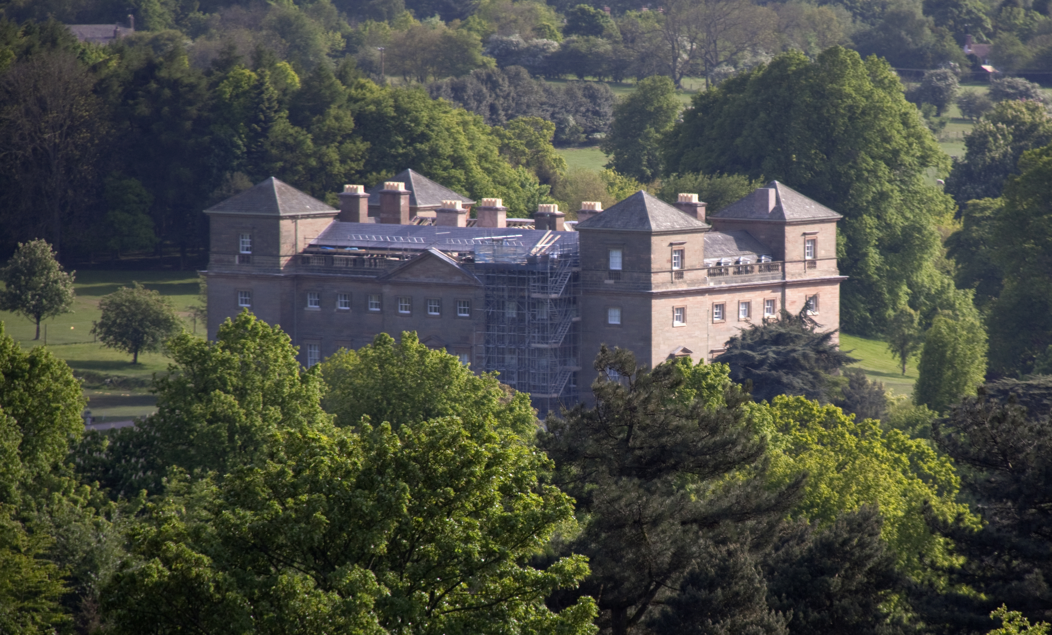 Hagley Hall